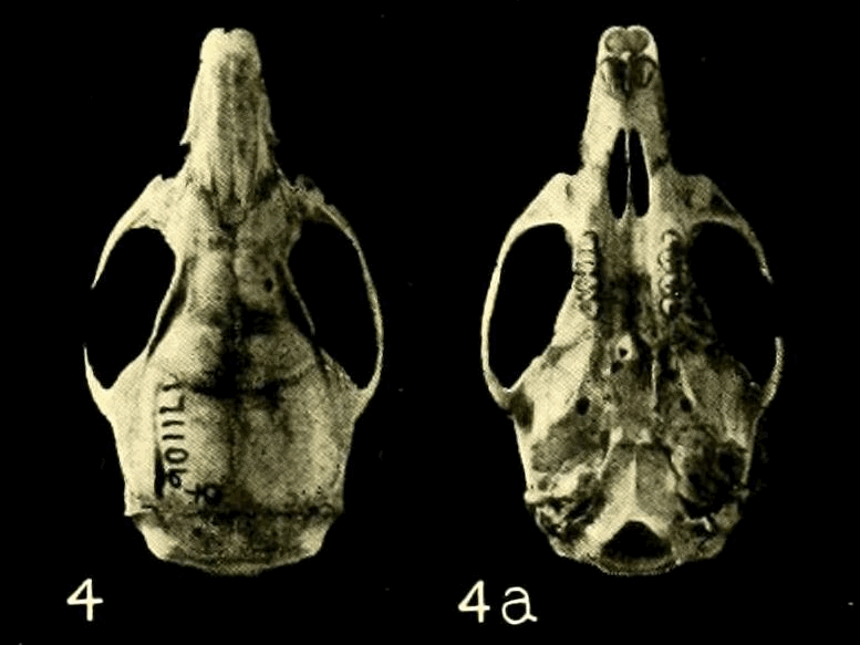 Skull of the female holotype of Oryzomys (Melanomys) caliginosus idoneus (=Melanomys caliginosus) from "Cerro Azul, near head Chagres River, Panama".